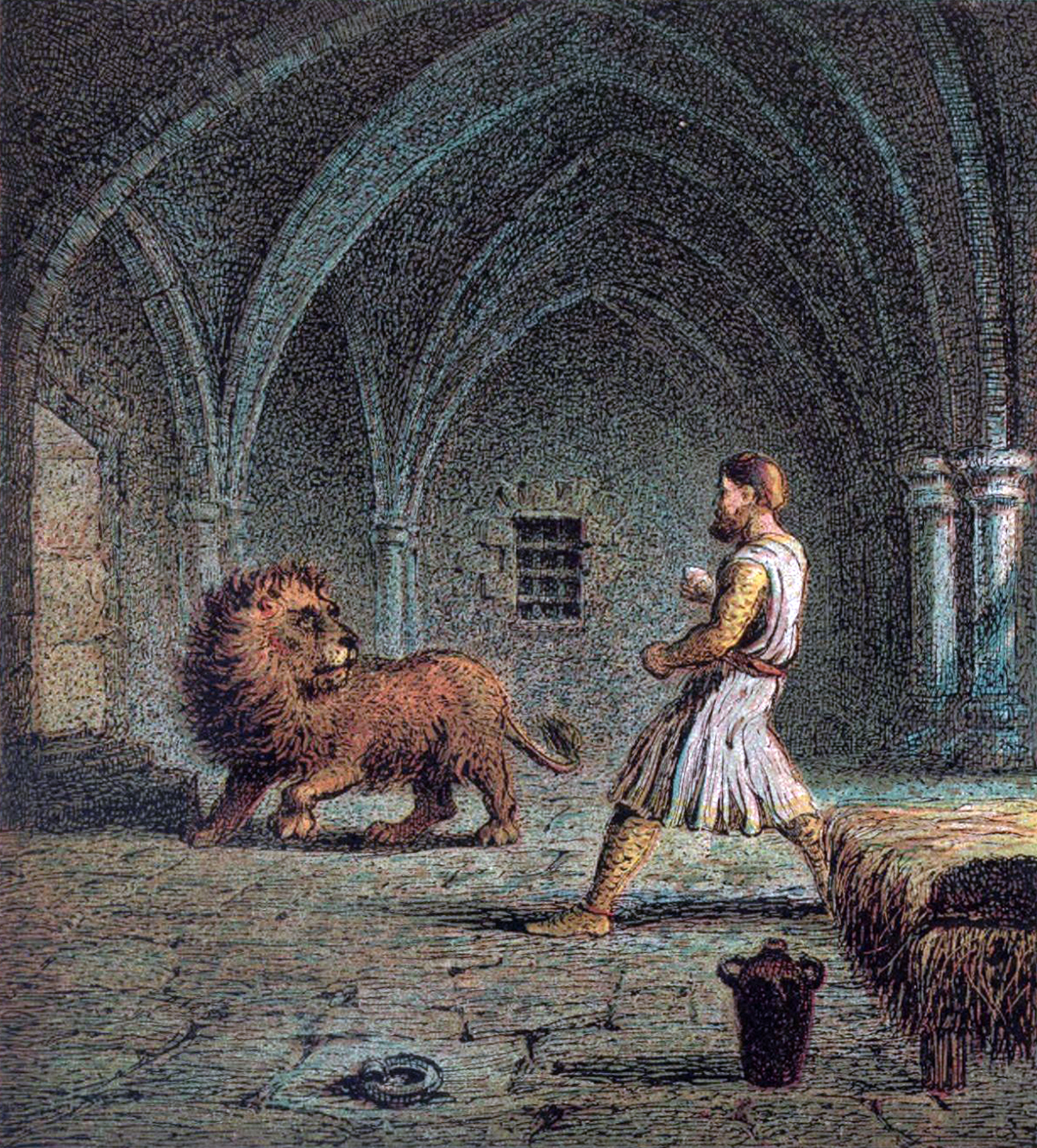 King Richard encounters a lion.